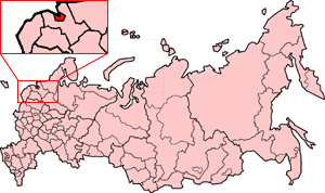 Based on image:BlankMap-RussiaDistricts.png